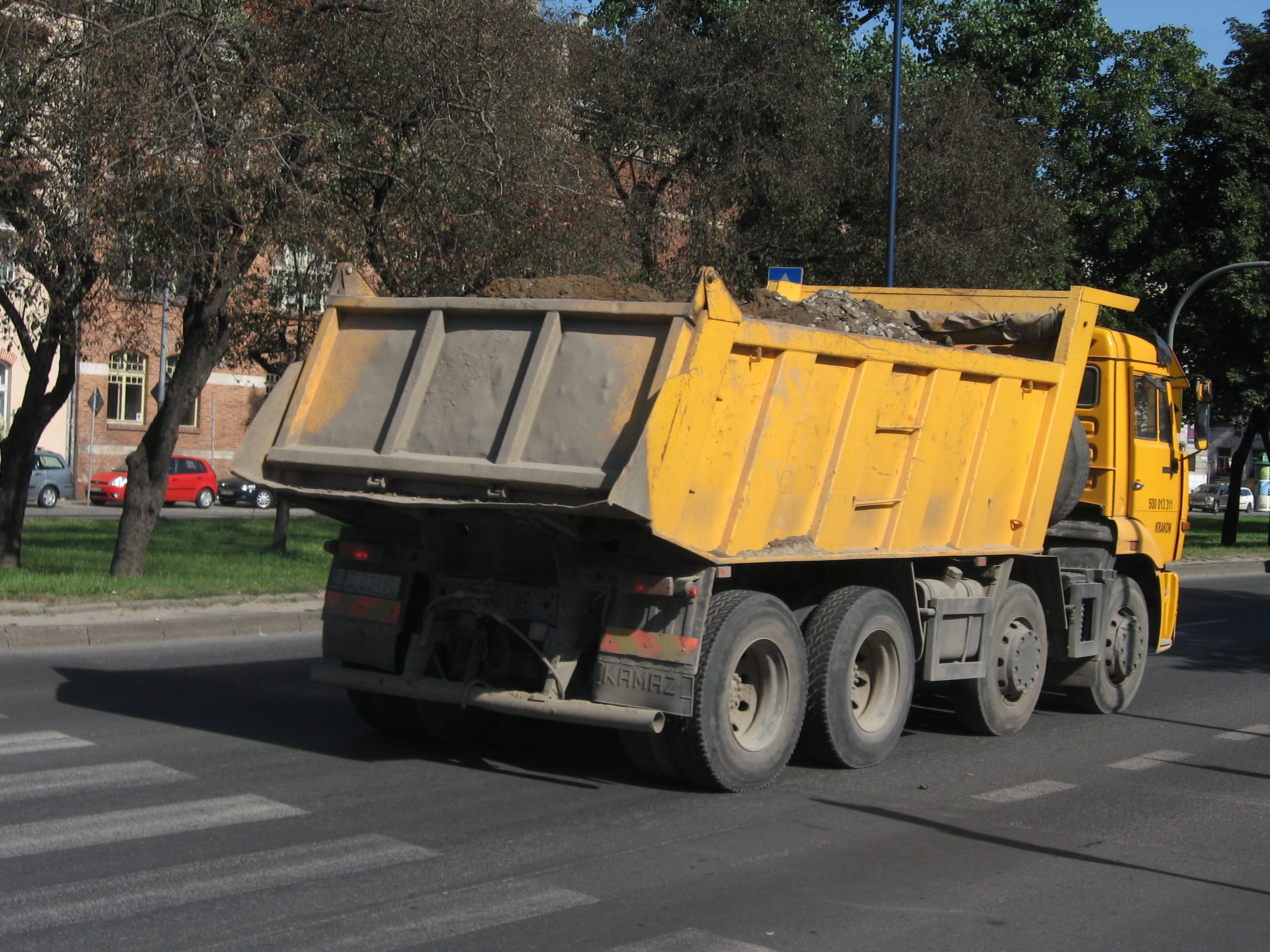 KamAZ-6540 truck on Mickiewicza avenue in front of the Hotel Orbis Cracovia in Kraków.